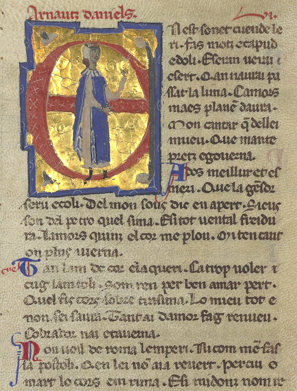 Page from a 13th century songbook including a depiction of Arnaut Daniel.